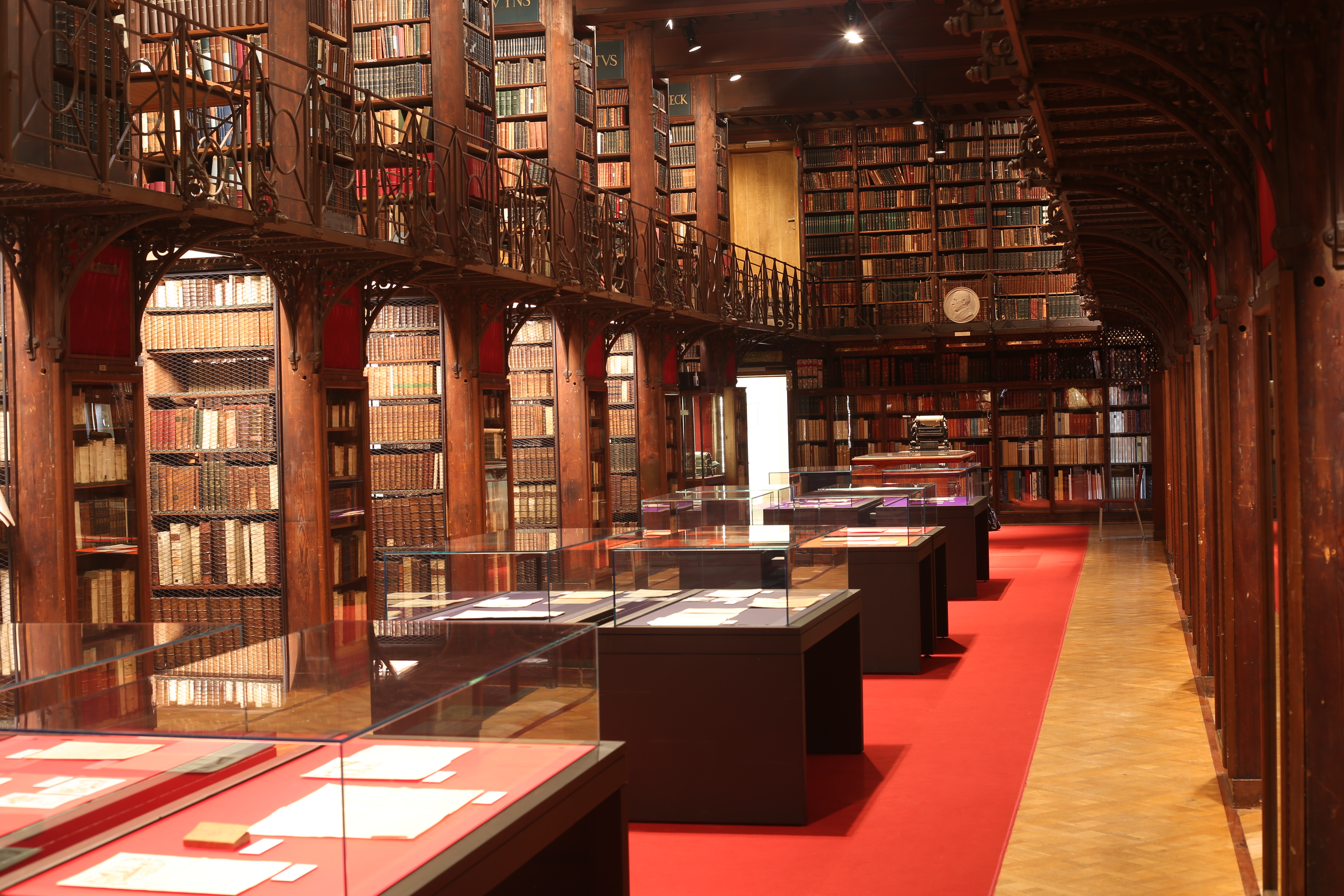 The Nottebohm Room, Hendrik Conscience Heritage Library, Antwerp, Belgium This is a file created at the museum: Hendrik Conscience Heritage Library in Antwerp